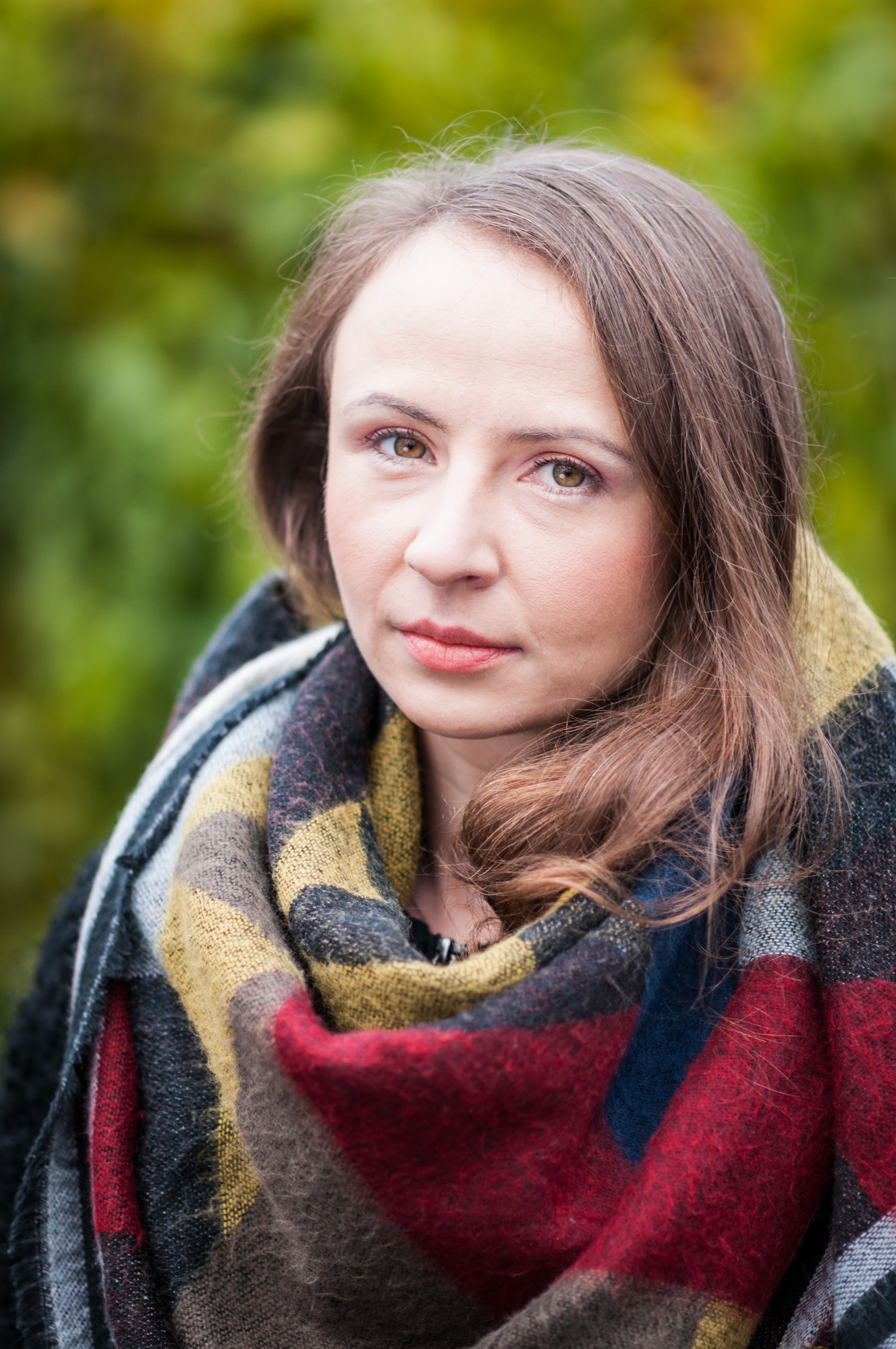 Agnieszka Dziemianowicz-Bąk of Razem party